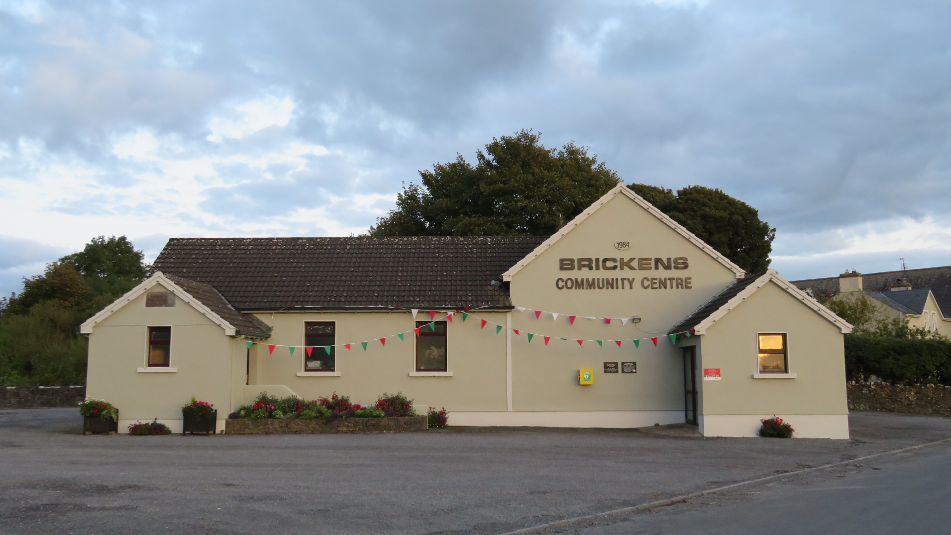 Brickens Community Centre in County Mayo, Ireland.